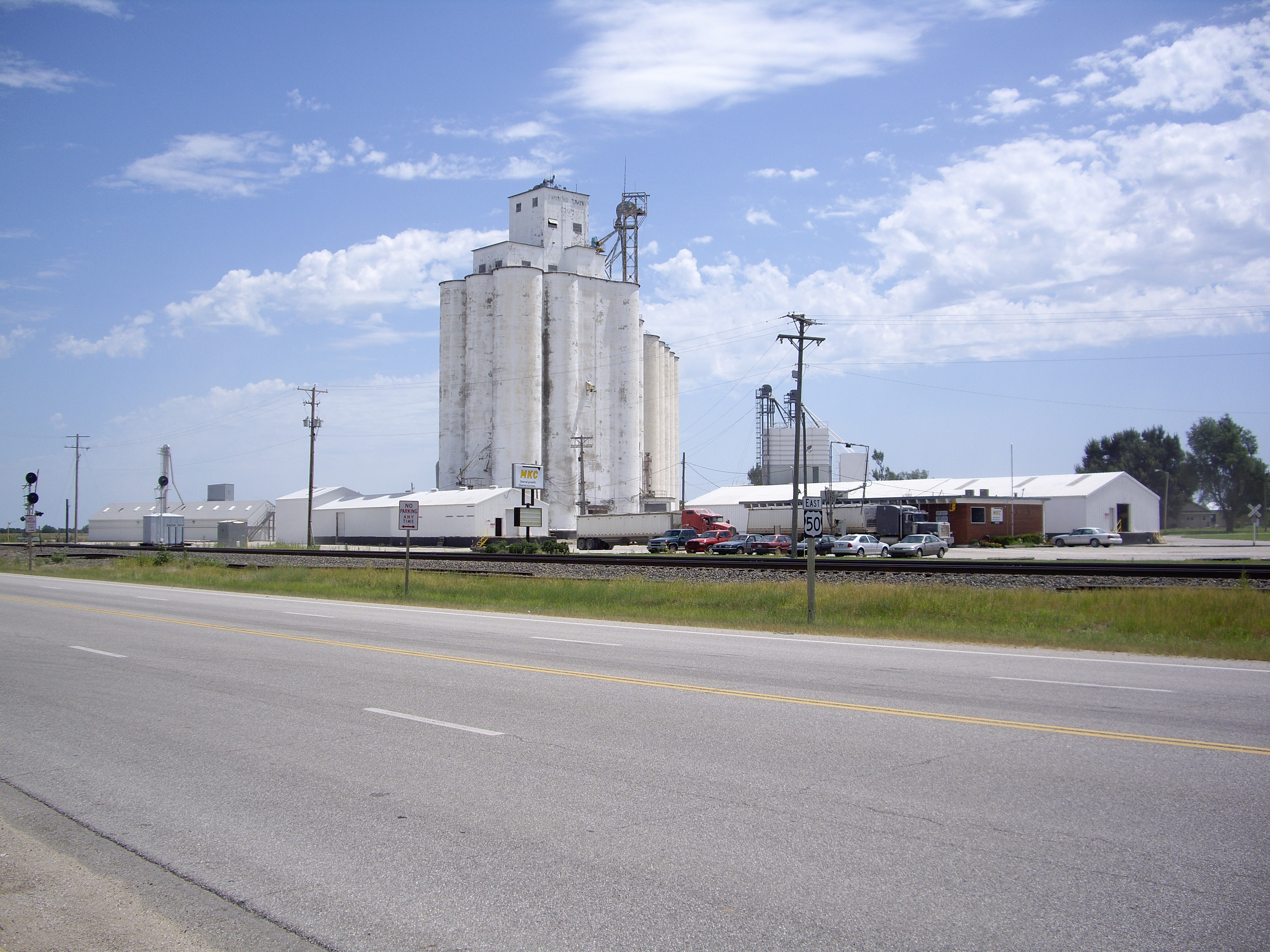 Mid Kansas Cooperative, 100 Main St, Walton, Kansas, 67151, USA. Looking east across Highway US-50. Photo by Steve Meirowsky on August 4, 2010.